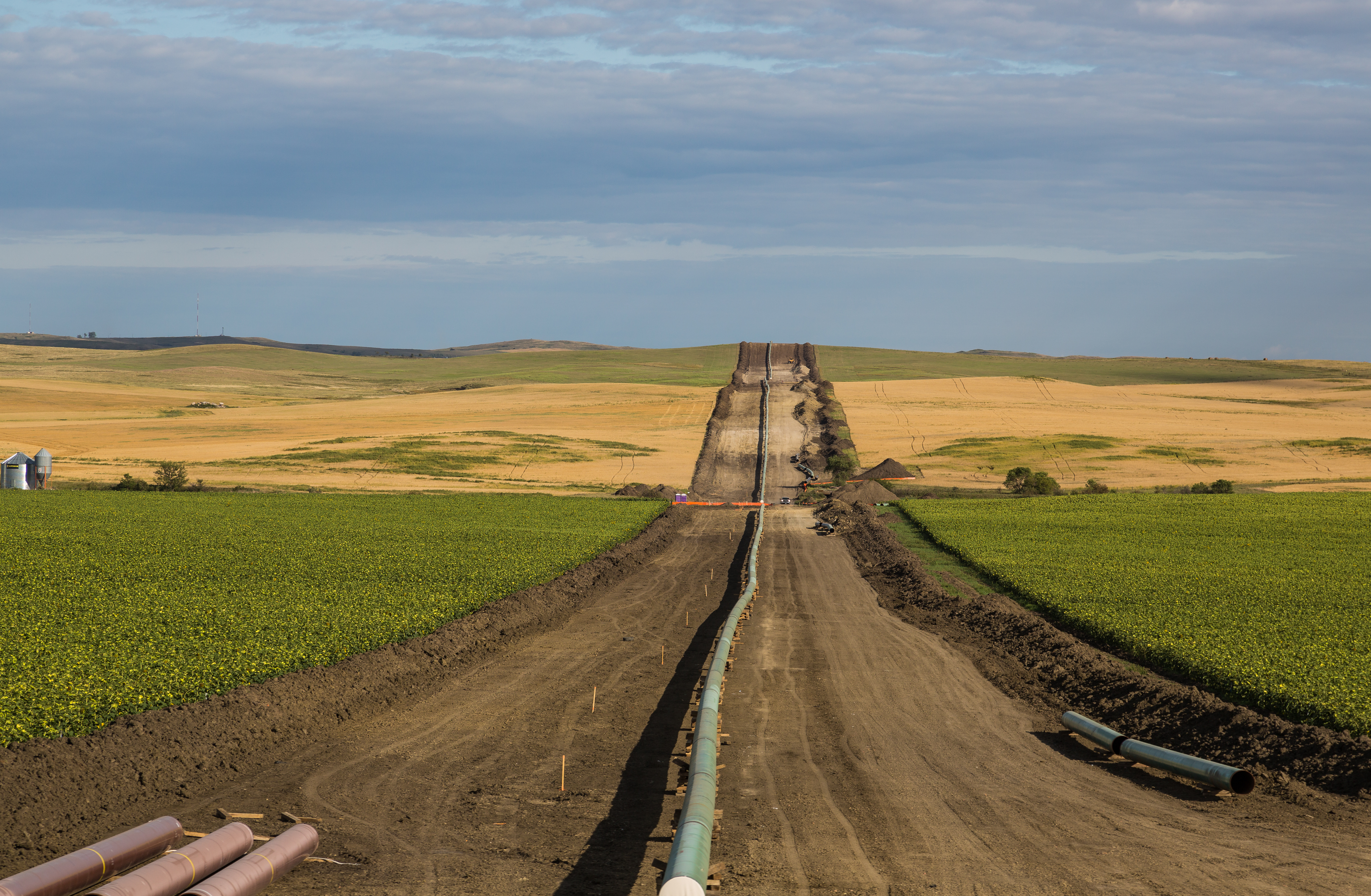 The DAPL (Dakota Access Pipeline) being installed between farms, as seen from 50th Avenue in New Salem, North Dakota.